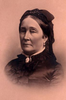 This is a 19th century photo of Louise Pommery (1819-1890) taking in the 1870's and used in the US advertising of Pommery prior to 1923.